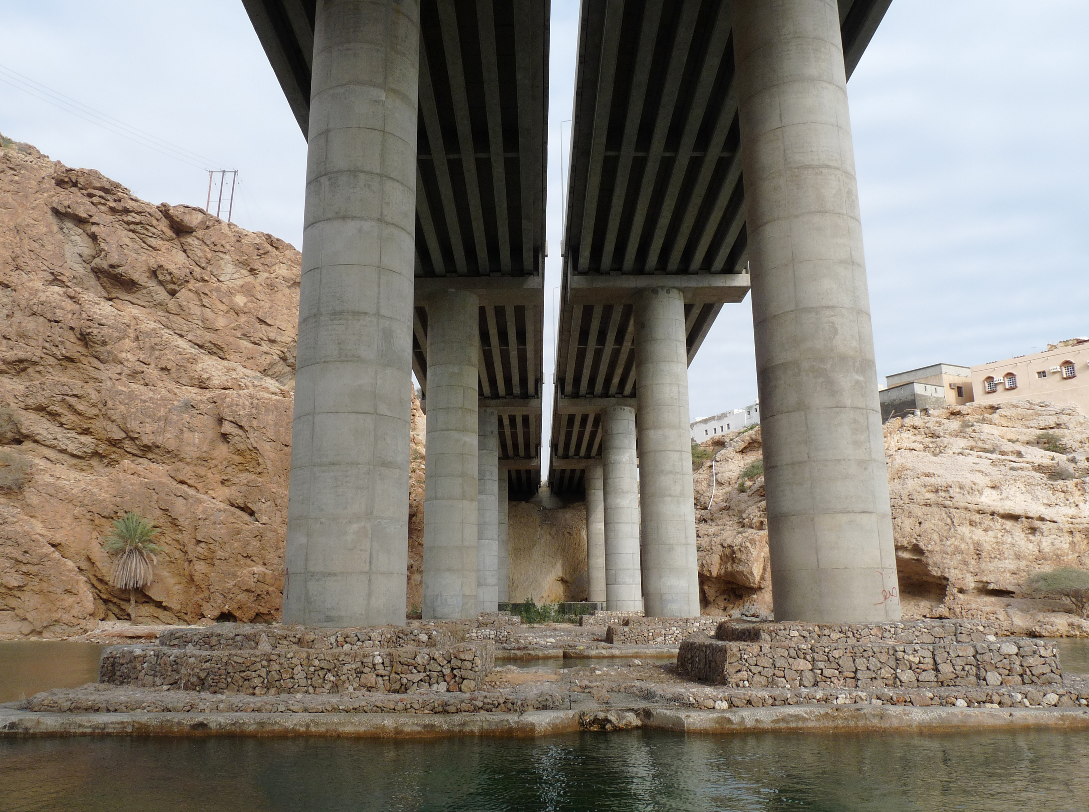 Motorway bridge across Wadi Shab (Oman)